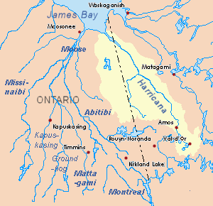 Harricana and Moose watersheds, south of James Bay, Canada. Derivative of